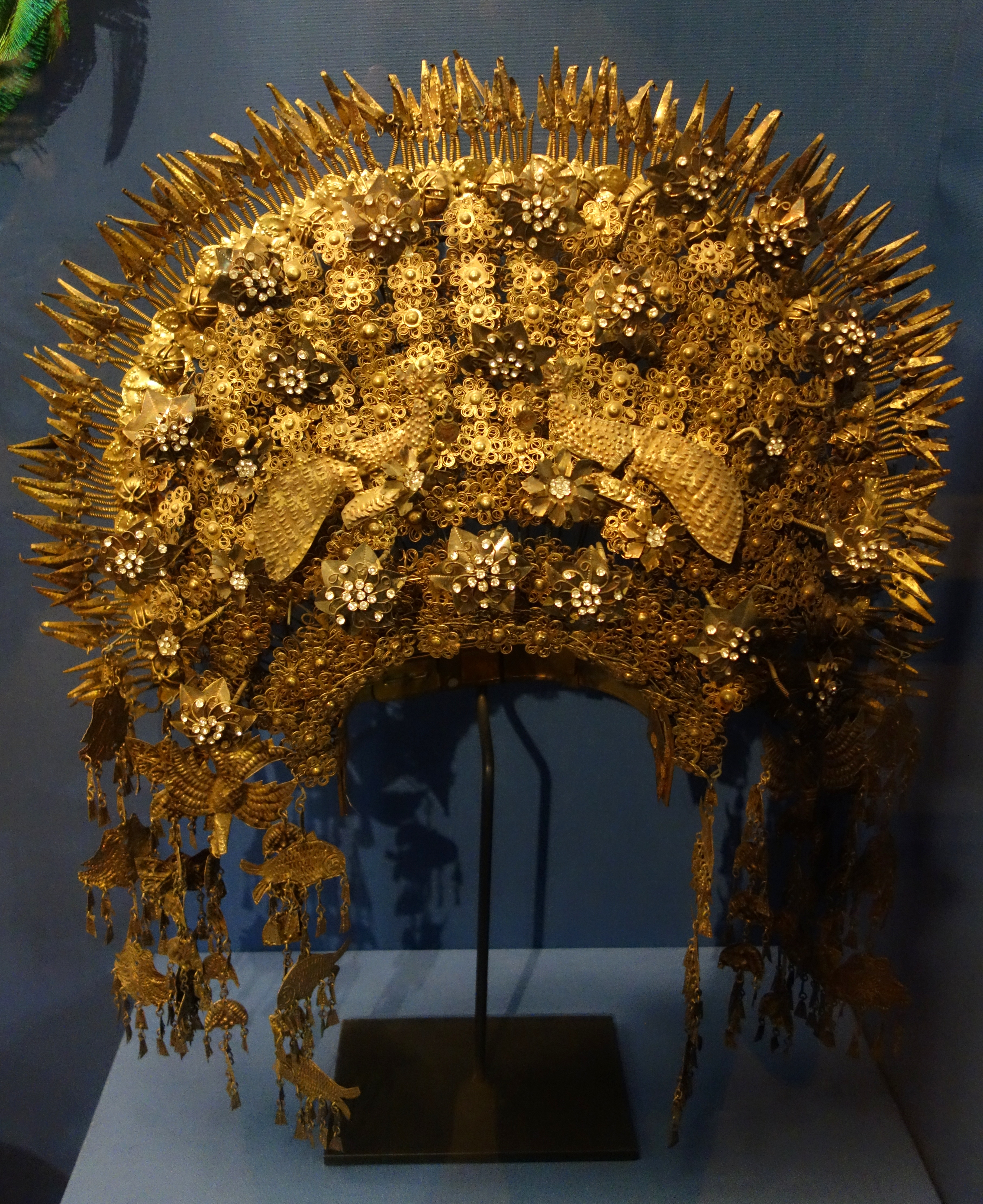 Exhibit in the Fernbank Museum of Natural History, Atlanta, Georgia, USA.